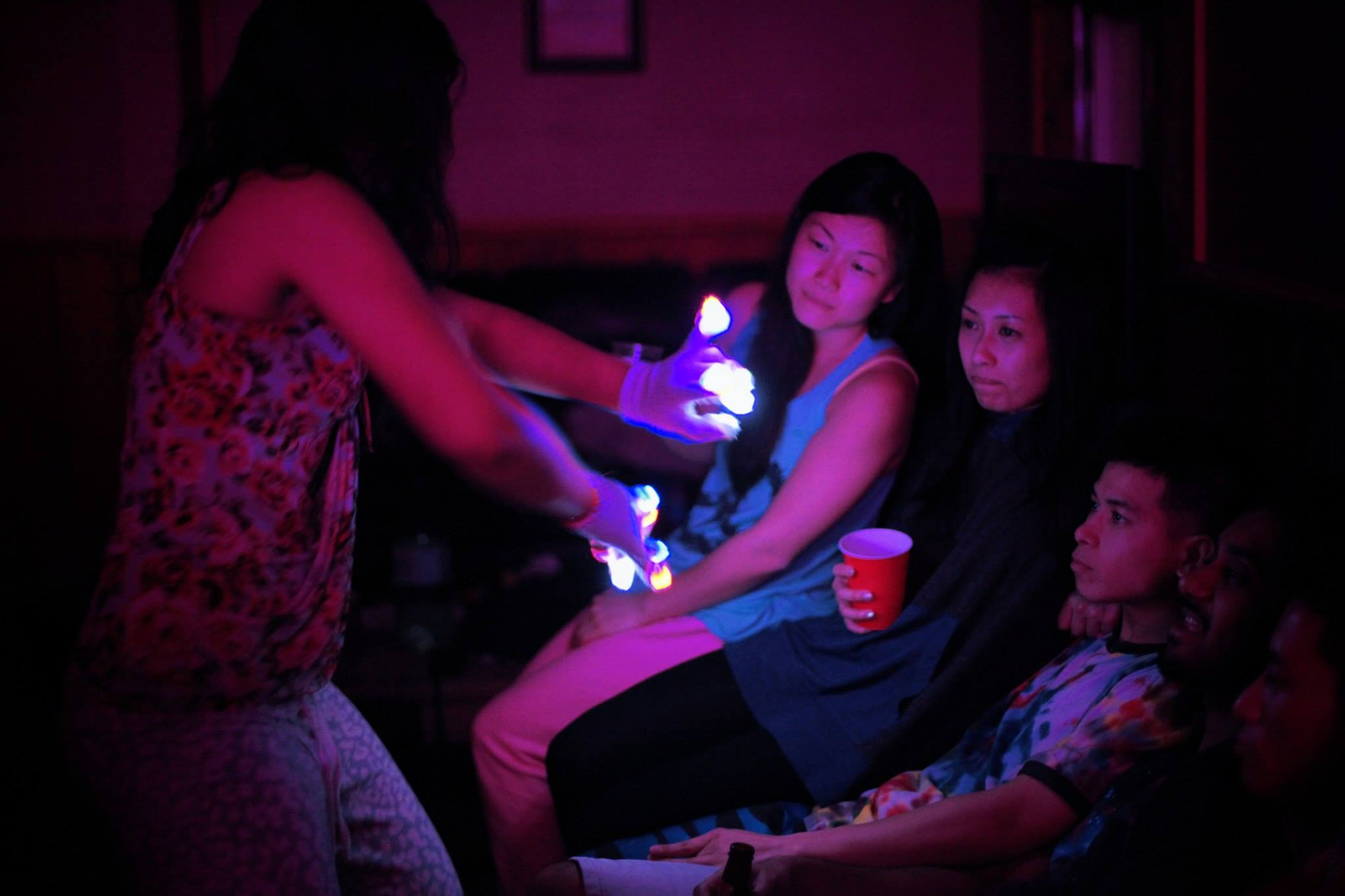 Picture of a girl giving a light show with LED gloves.